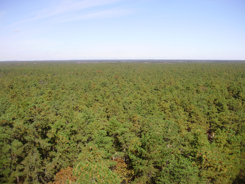 View north from the fire tower on Apple Pie Hill of New Jersey Pinelands National Reserve, in New Jersey. On the border of Tabernacle and Woodland townships, Burlington County, New Jersey.